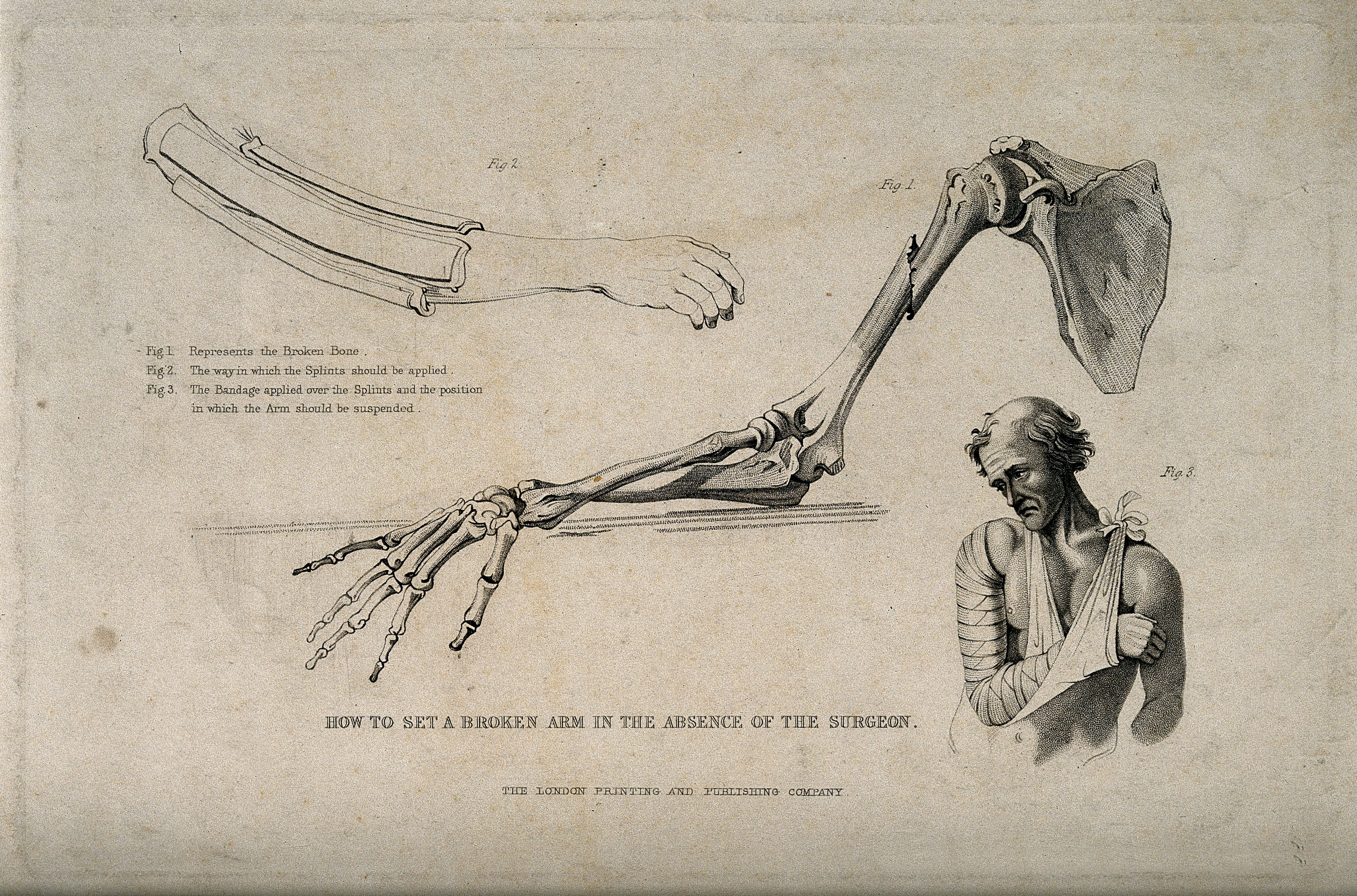 Diagrams illustrating how to set a broken arm. Stipple engraving. Iconographic Collections Keywords: FRACTURES; Extremities; LIMBS; Splints; BROKEN ARM